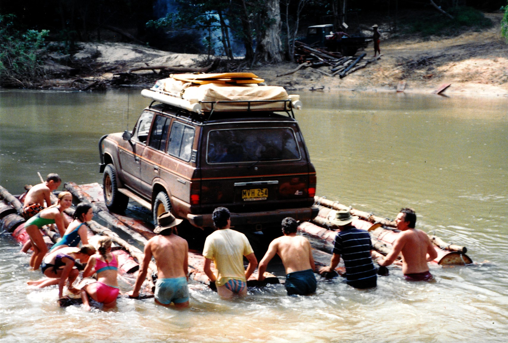 I took this photo on a trip around Cape York Peninsula in Australia in 1990